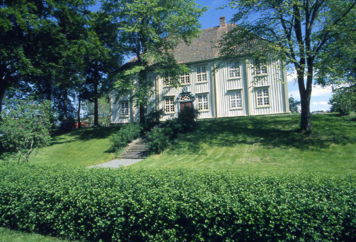 Lerchendal gård (=manor), Trondheim, Norway. West facade, 1999. The building dates from 1762